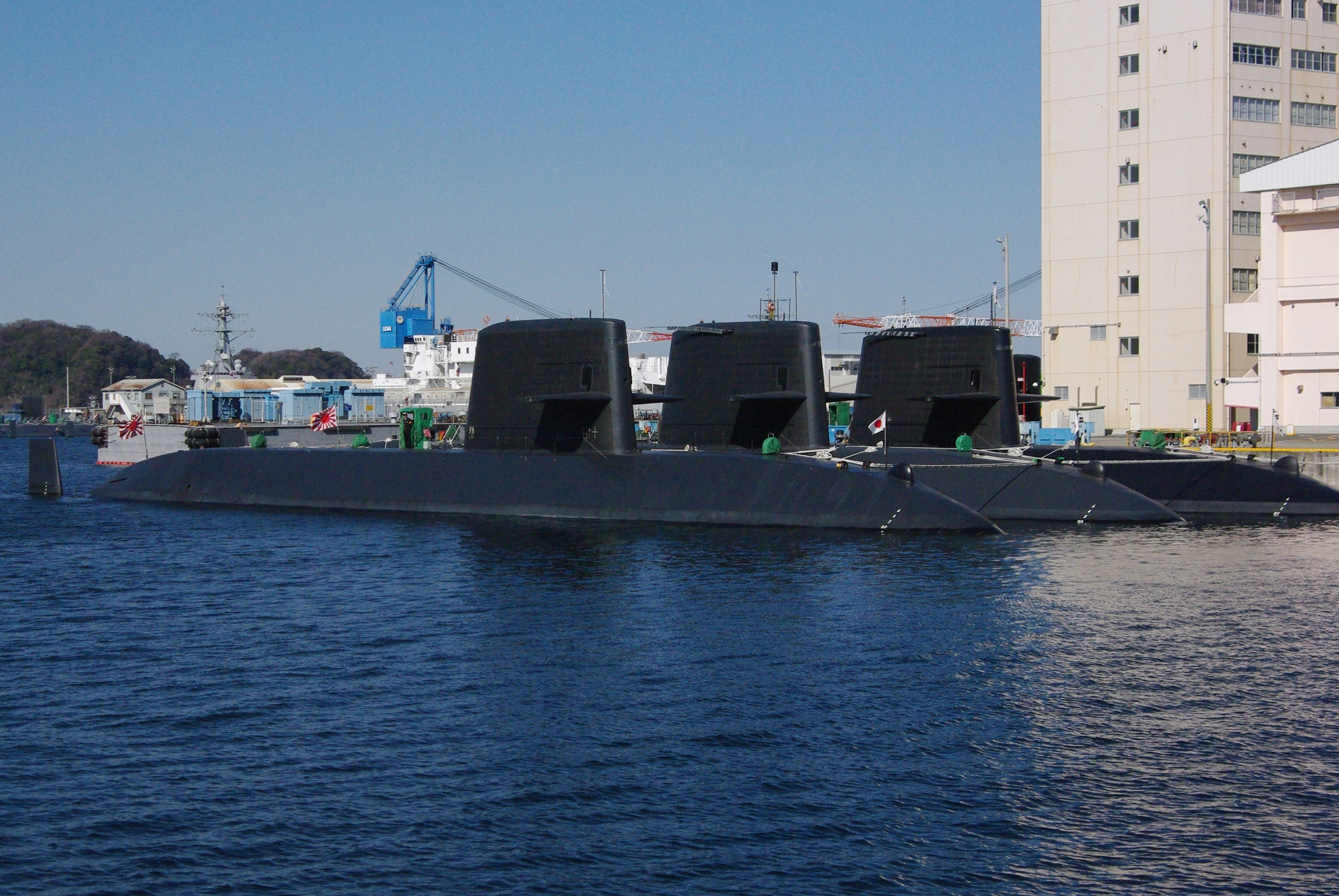 In Yokosuka,Japan.8-Feb-2009.JMSDF Oyashio class submarine.Taken by Los688.PD-self